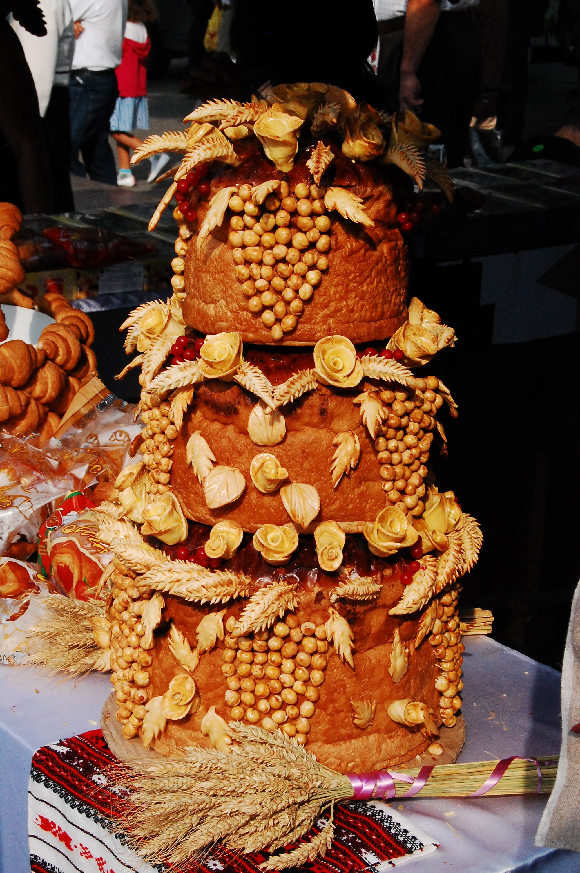 Ukrainian Korovai at a bread festival in Ivano-Frankivsk,Ukraine